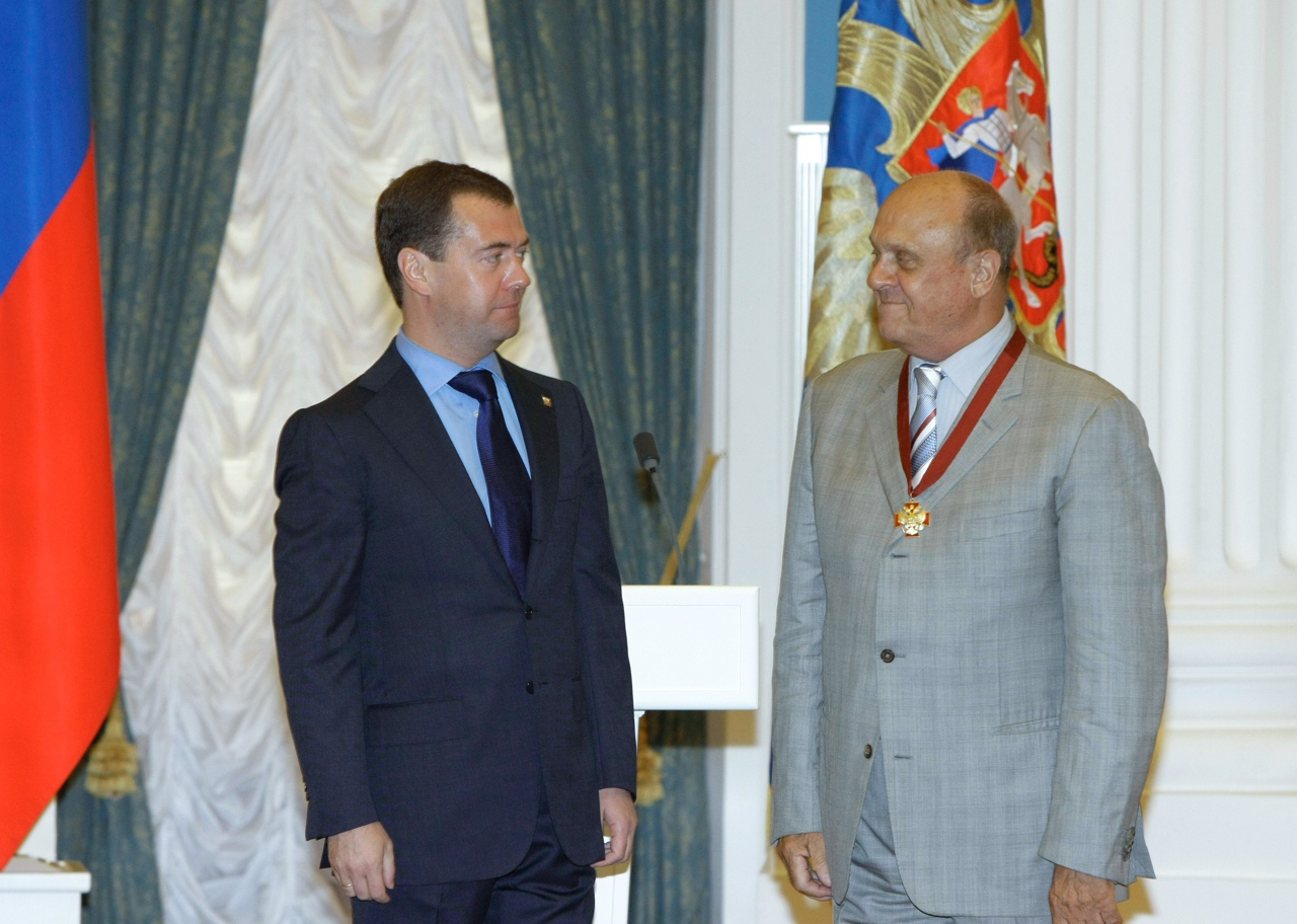 Moscow. Dmitry Medvedev with Russian film director Vladimir Menshov.